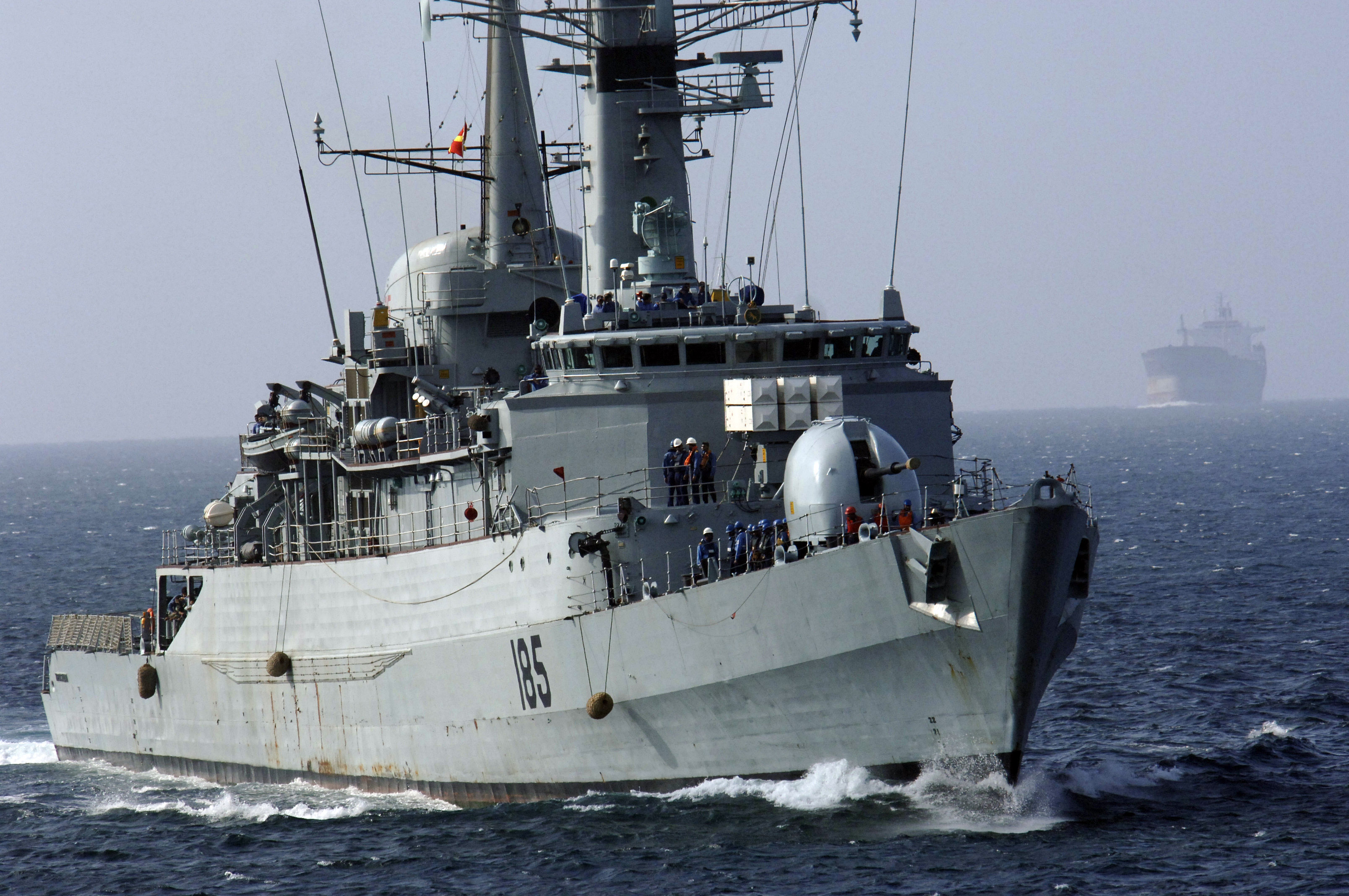 Pakistani Naval Frigate PNS Tippu Sultan (D 185), Amazon (Type 21) Class, prepares to come alongside the Military Sealift Command (MSC) fast combat support ship USNS Supply (T-AOE 6) for an underway replenishment (UNREP). Supply is an Earl, N.J., based fast-combat logistic support ship and is currently underway in the U.S. 5th Fleet area of operations to help the fleet sustain its length at sea in order to conduct Maritime Security Operations (MSO).